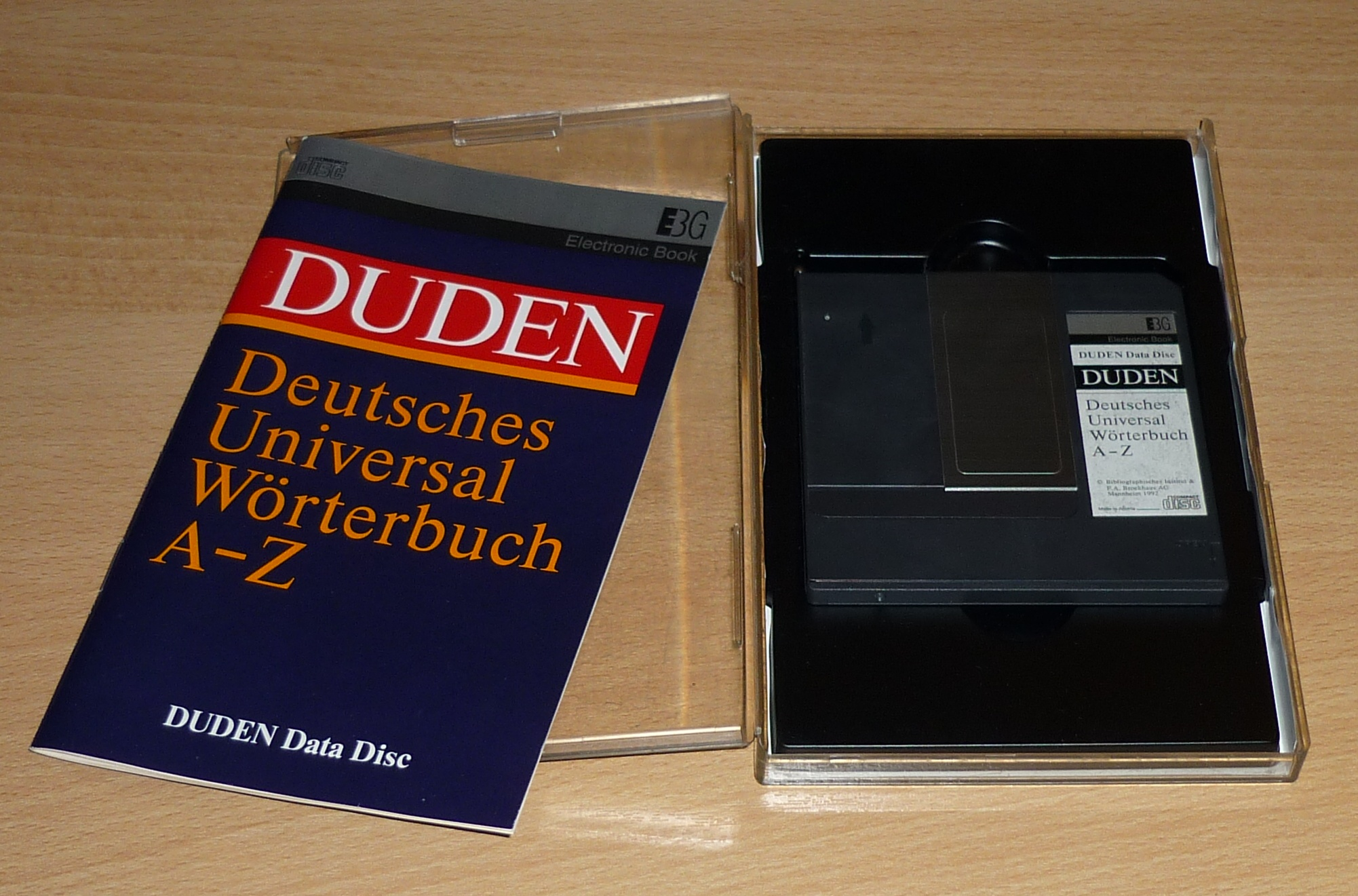 German dictionary "Duden Deutsches Universal-Wörterbuch A-Z" in Sony's early e-book format "EBG" for the Data Discman. This edition published in 1992.